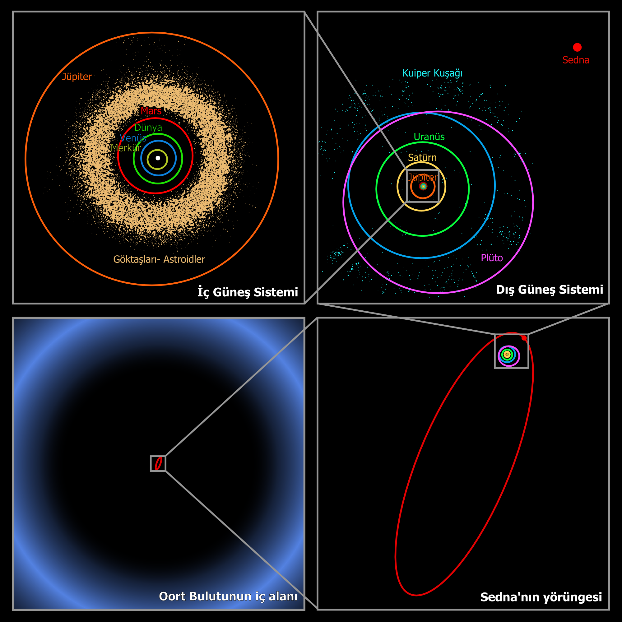 These four panels show the location of trans-Neptunian object 90377 Sedna, which lies in the farthest reaches of the Solar system. Each panel, moving clockwise from the upper left, successively zooms out to place Sedna in context. The first panel shows the orbits of the inner planets and Jupiter; and the asteroid belt. In the second panel, Sedna is shown well outside the orbits of Neptune and the Kuiper belt objects. Sedna's full orbit is illustrated in the third panel along with the object's location in 2004, nearing its closest approach to the Sun. The final panel zooms out much farther, showing that even this large elliptical orbit falls inside what was previously thought to be the inner edge of the spherical Oort cloud: a distribution of cold, icy bodies lying at the limits of the Sun's gravitational pull. Sedna's presence suggests that the previously speculated inner disk on the ecliptic does exist.